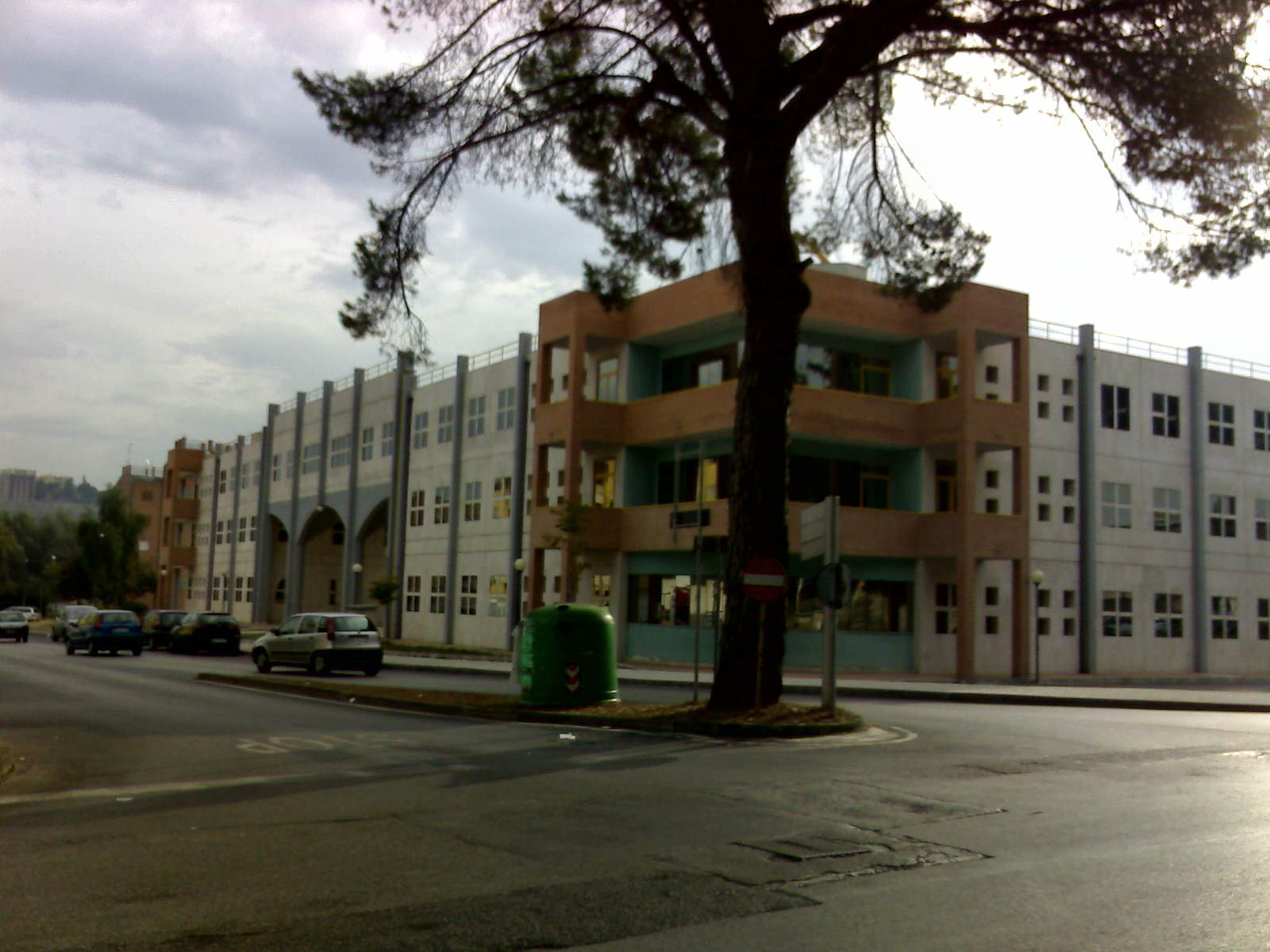 The Center for Administration Services of the Province of Benevento